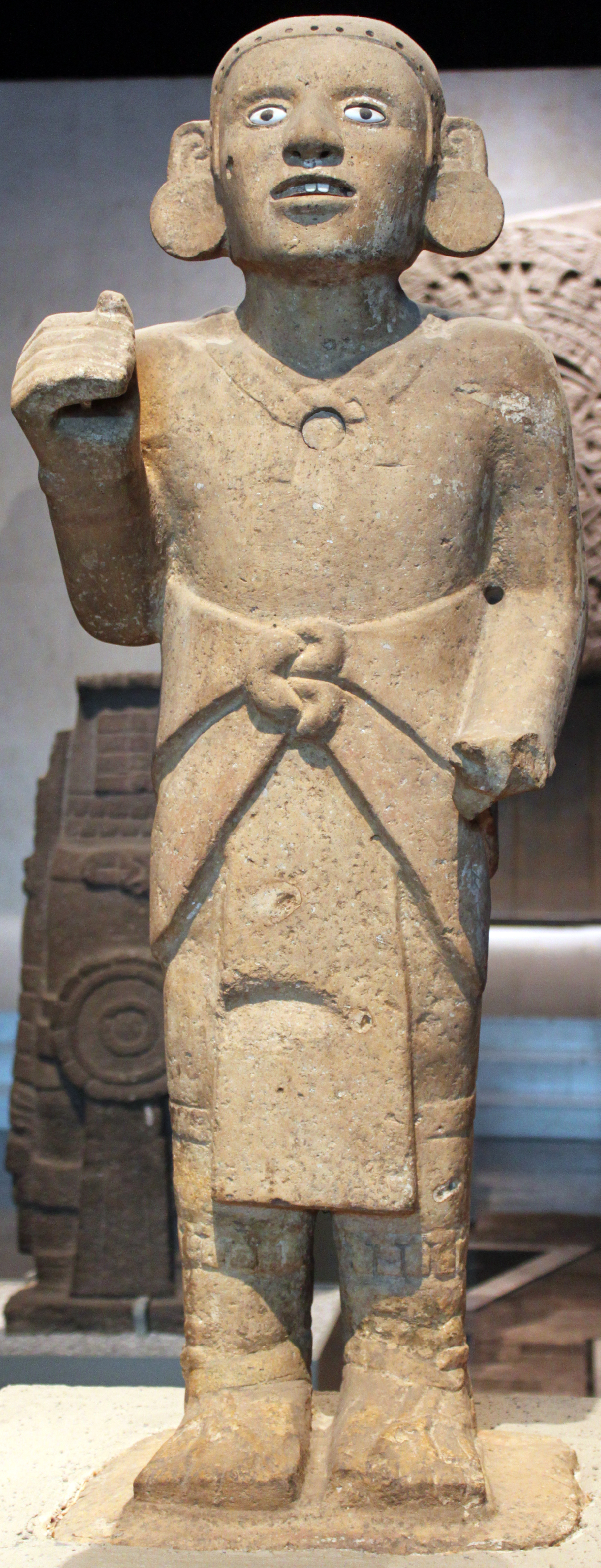 Xiuhtecuhtli (Nahuatl: "Turquoise Lord" or "Lord of Fire"); Aztec god of fire, the heat, the light in the darkness and the food in the famine; from Coxcatlán, Puebla, shown in the National Museum of Anthropology, Mexico City